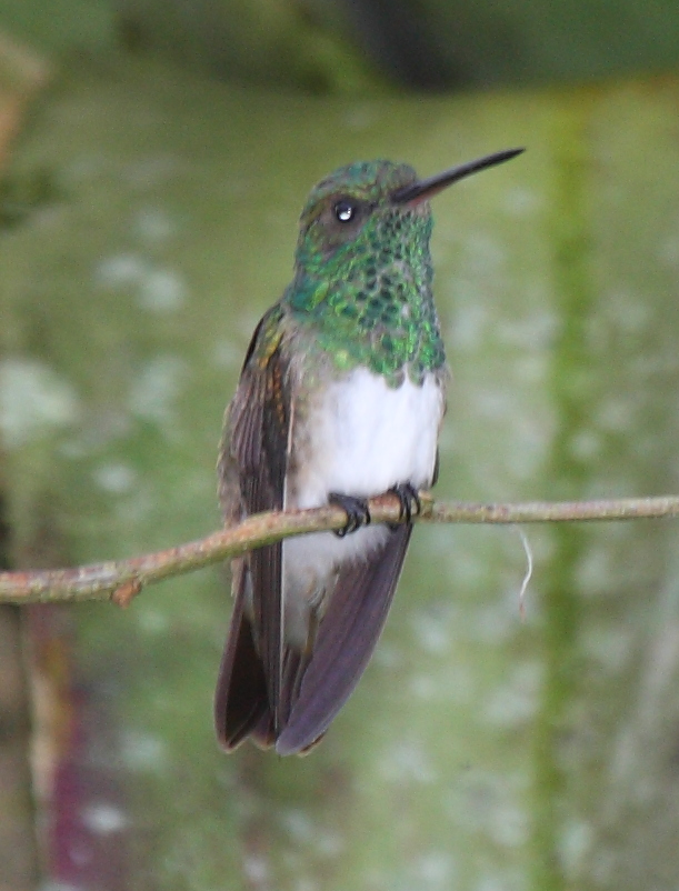 Snowy-breasted Hummingbird (Amazilia edward). Taken in Panama.